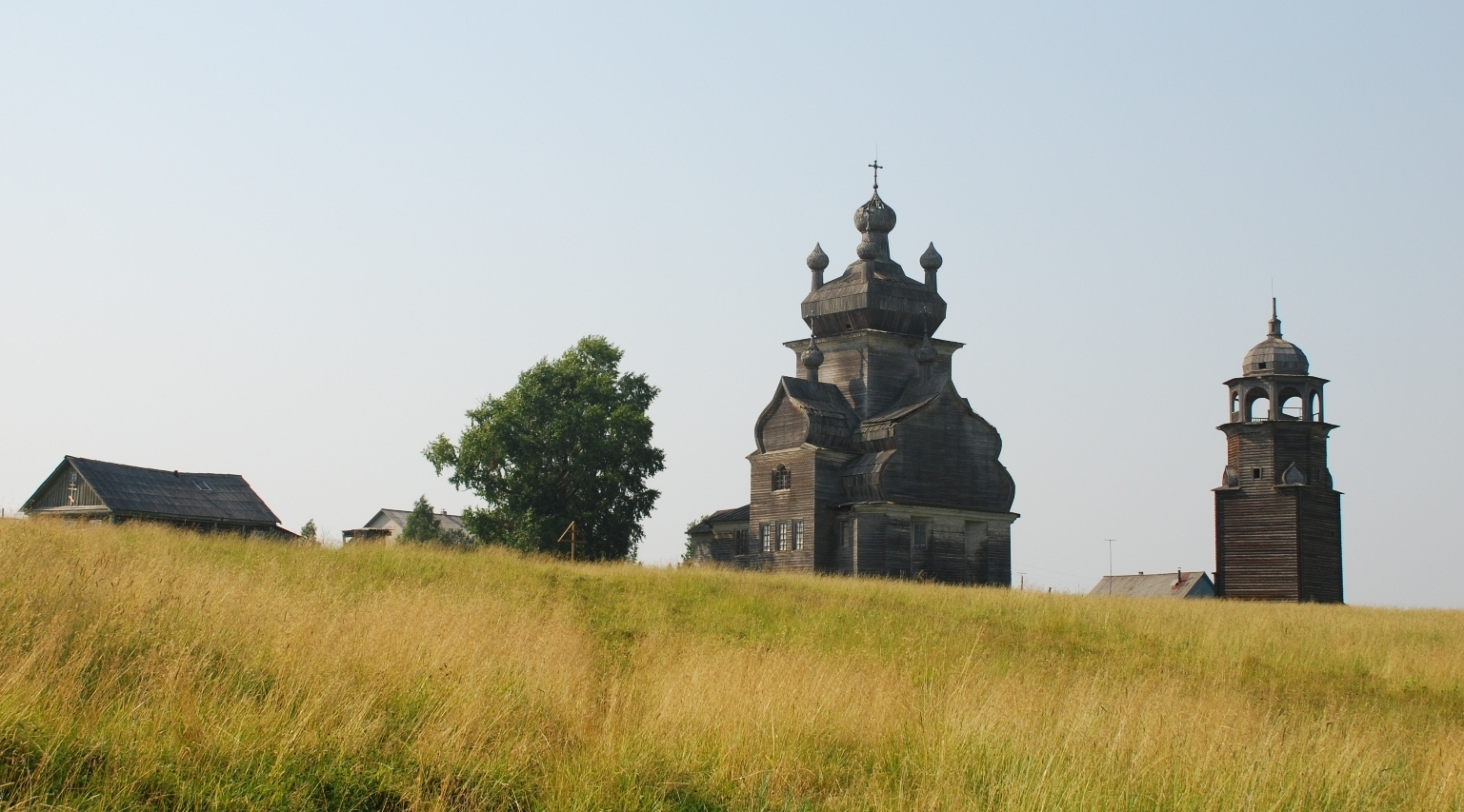 Church of the Transfiguration in the village Turchasovo